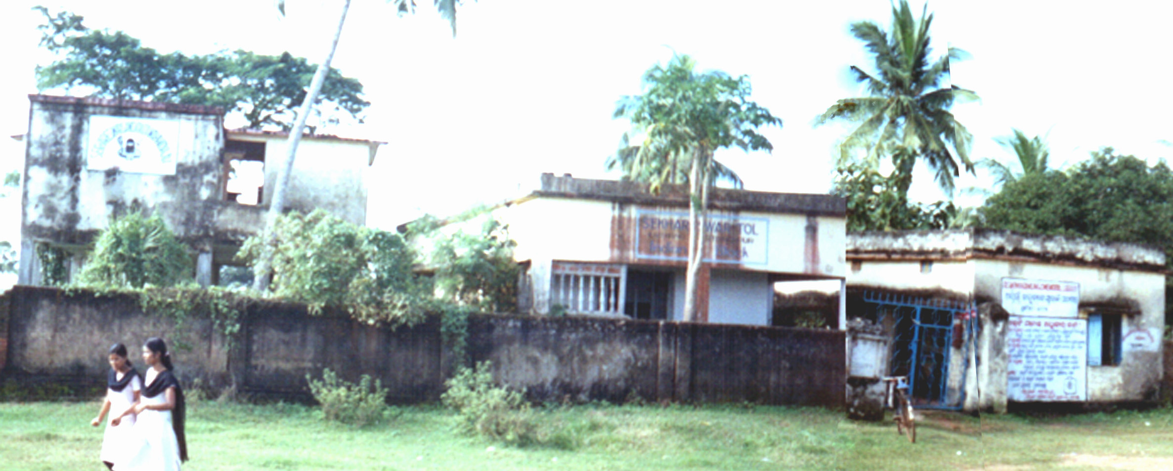 This is the image of Sekhareswar Sanskrit College, Lathanga,Jagatsinghpur, Orissa taken from distance.